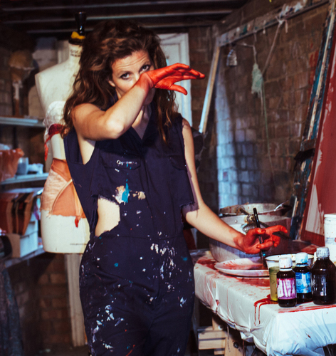 Photo of Felicity Brown in her workshop